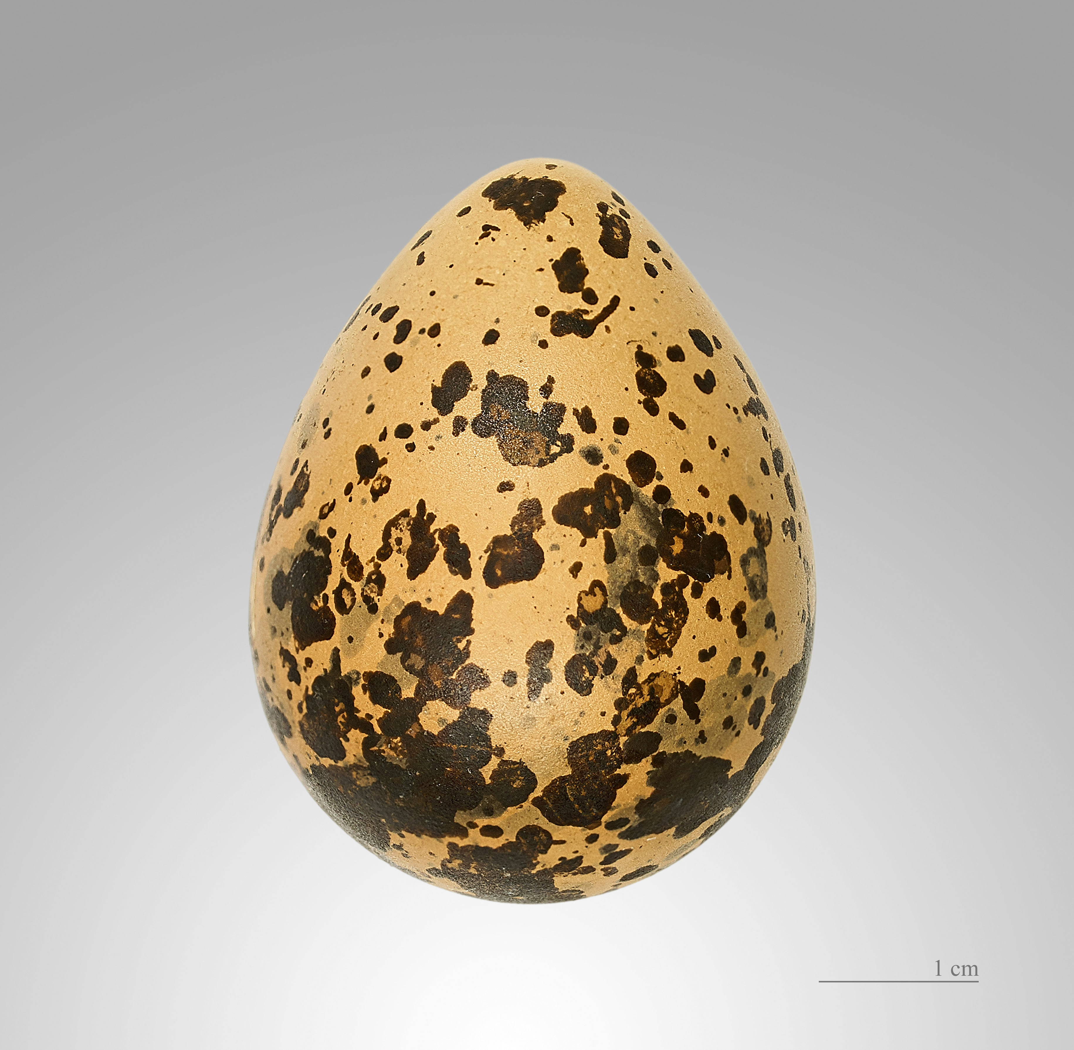 Egg of Northern Lapwing. Collection of Jacques Perrin de Brichambaut.